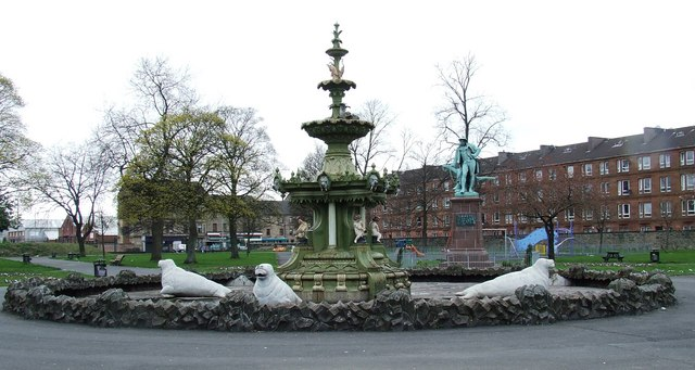 Ornate fountain. In Fountain gardens, a gift from Thomas Coats of the threadmaking family to the poor people of Paisley in 1868. There is a statue of Robert Burns in the background 395481. An nearby information board explains that the fountain is 8.5 metres high and shot water a further 9 metres high. It includes life sized walruses, lizards, sea horses, dolphins and herons with shells and small animals on the cast iron rocks forming the edge of the basin.